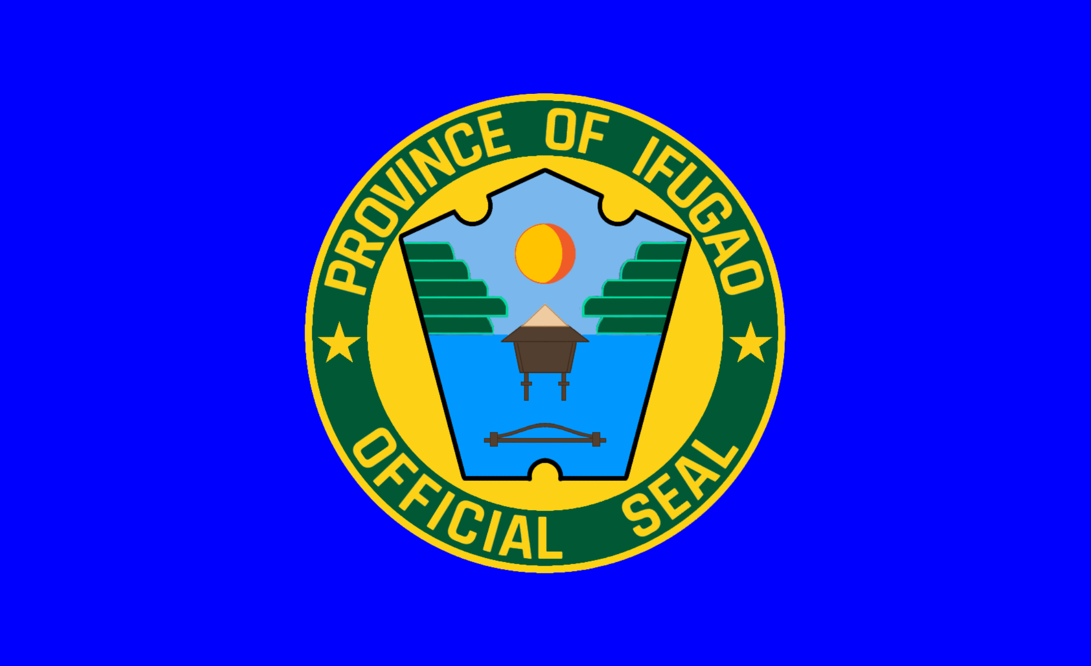 Provincial Flag of Ifugao